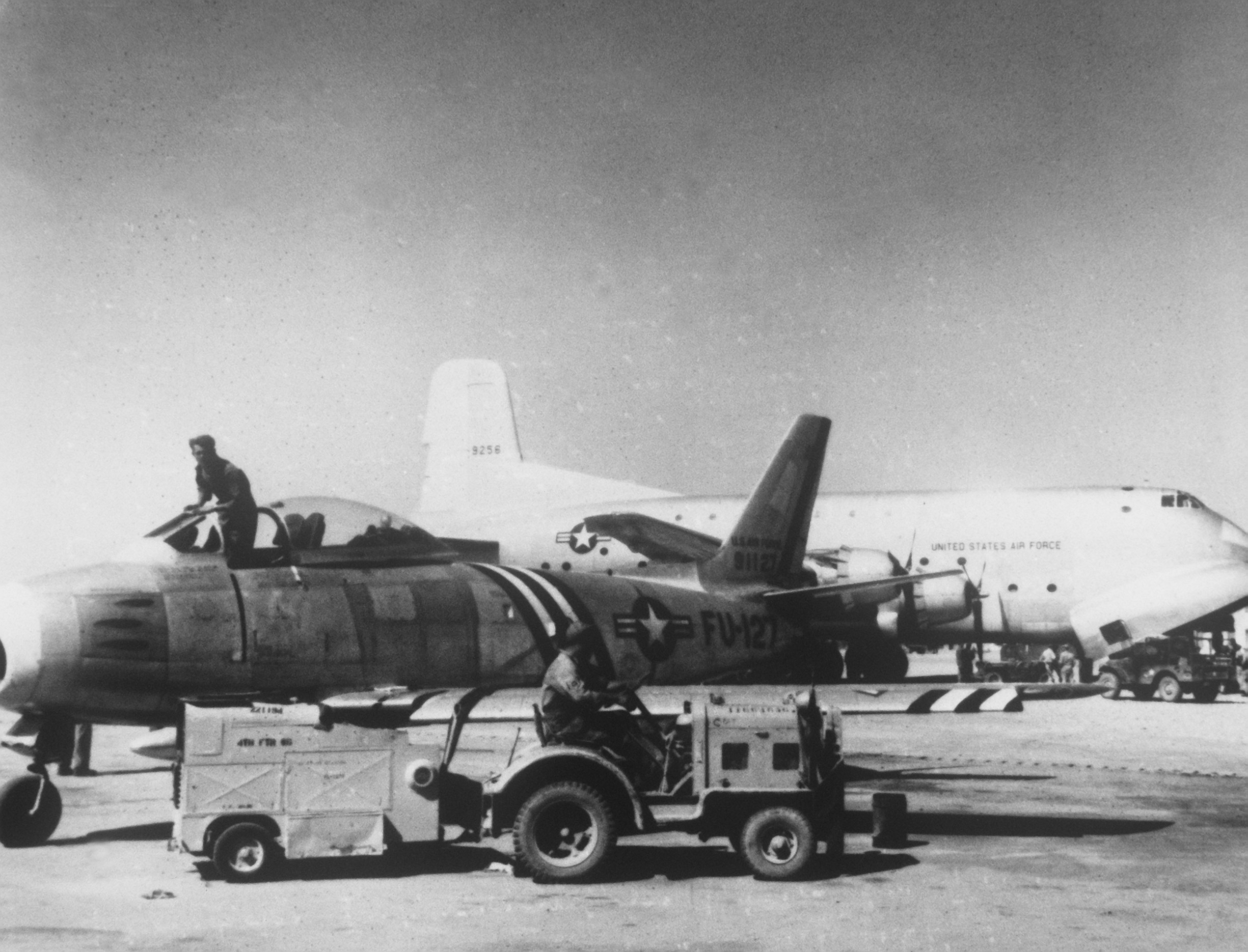 A North American F-86A-5-NA Sabre (s/n 49-1127) from the 4th Fighter Interceptor Wing at an airfield in Korea, probably Suwon, in 1951. In the background is a Douglas C-124A Globemaster II (s/n 49-256) from the 315th Air Division (Combat Cargo). Original caption: "A tiny F-86 "Sabre" jet of the U.S. Air Forces 4th Fighter Interceptor Wing in Korea is dwarfed by a giant C-124 "Globemaster II" which has airlifted a heavy tonnage of priority combat supplies to this Korean airstrip. Unity in the overall mission of the U.S. Far East Air Force is exemplified--FEAF transports of the 315th Air Division (Combat Cargo) daily airlift vital aircraft parts to keep the fighters operational; the fighters in turn maintain UN air supremacy which protects airfields from hostile aircraft attack."